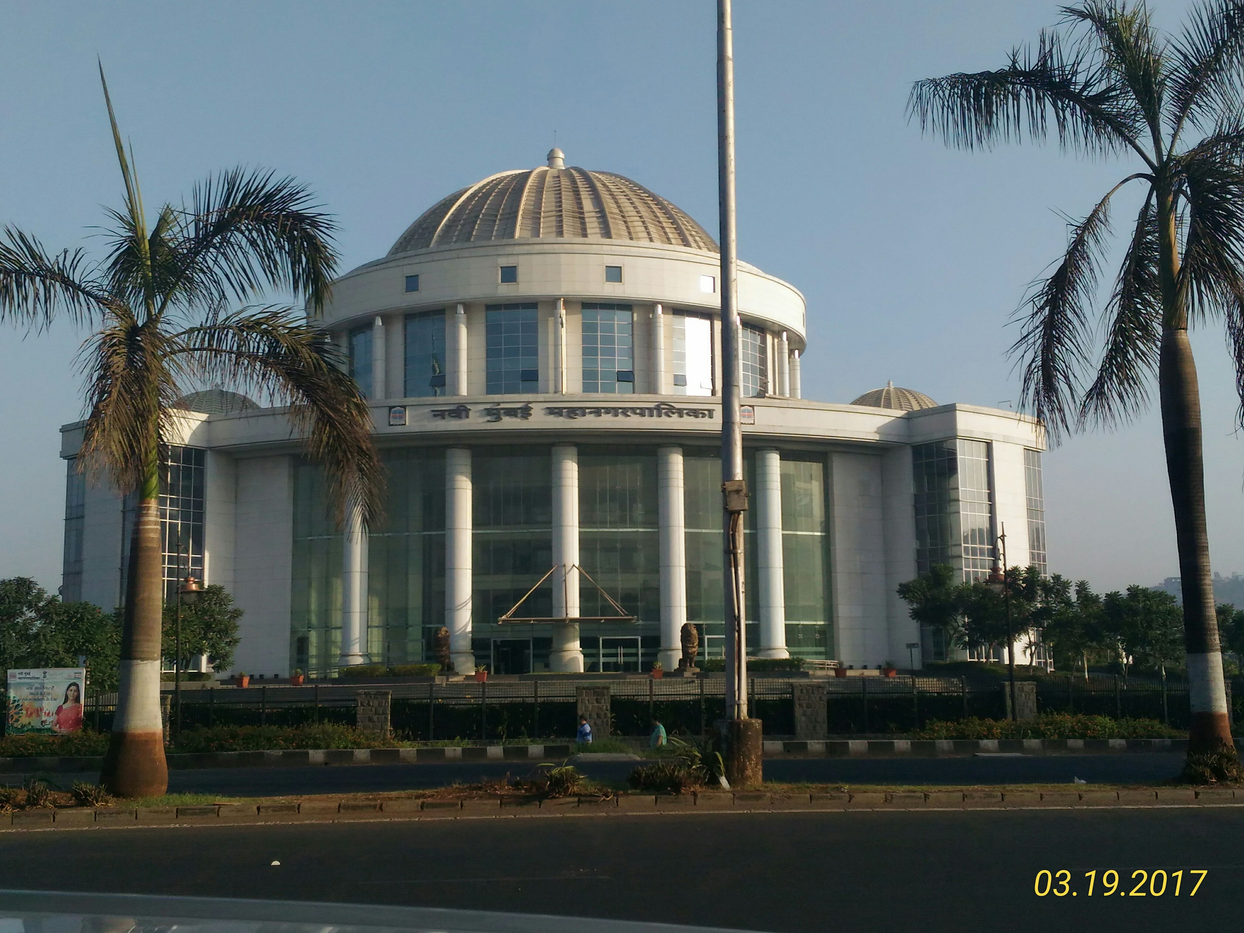 Head office NMMC